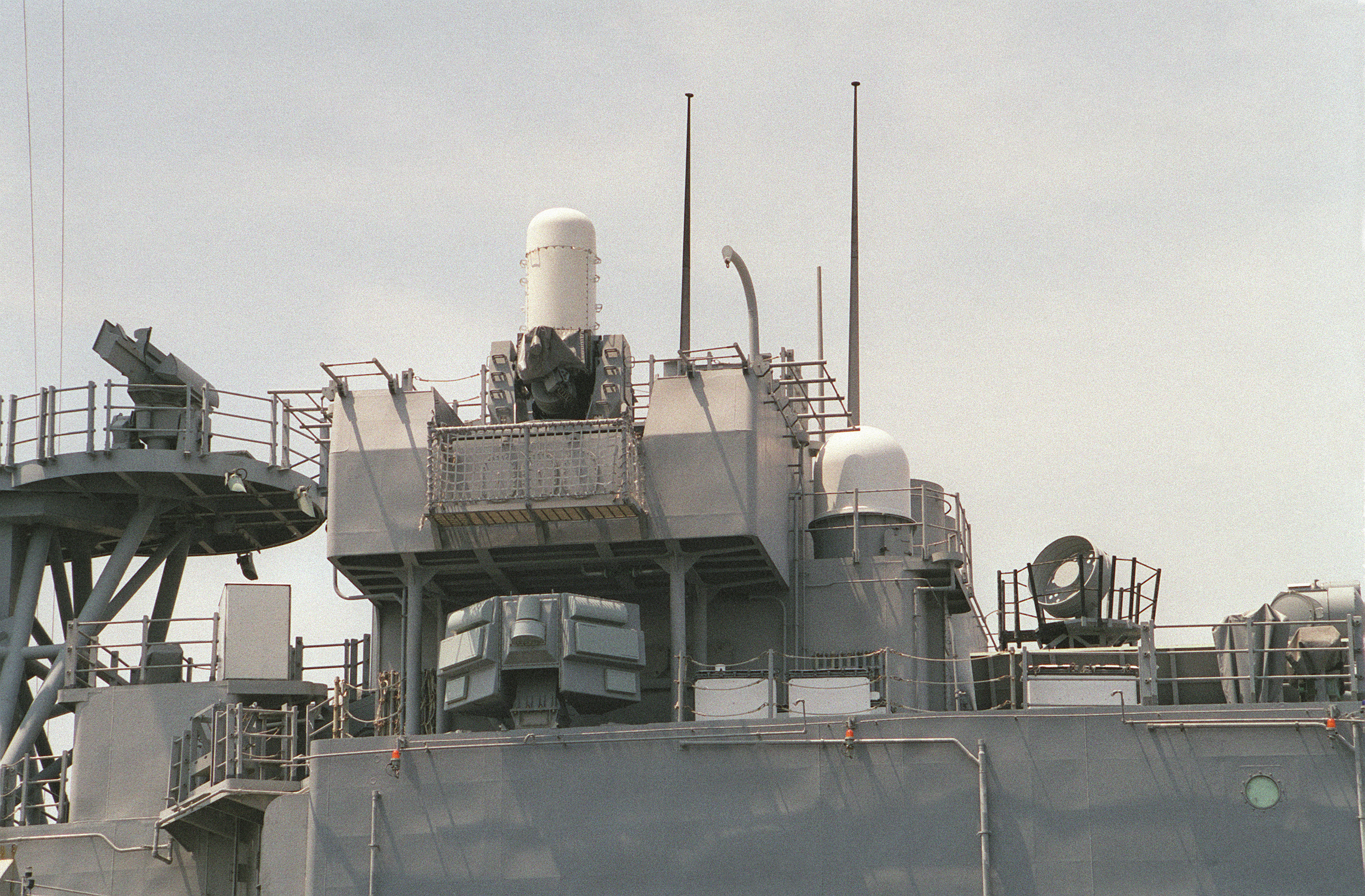 A portside view of a Phalanx Close-In Weapons System (CIWS), mounted amid-ship, on the USS NICHOLSON (DD 982).Location: NORFOLK, VIRGINIA (VA) UNITED STATES OF AMERICA (USA)